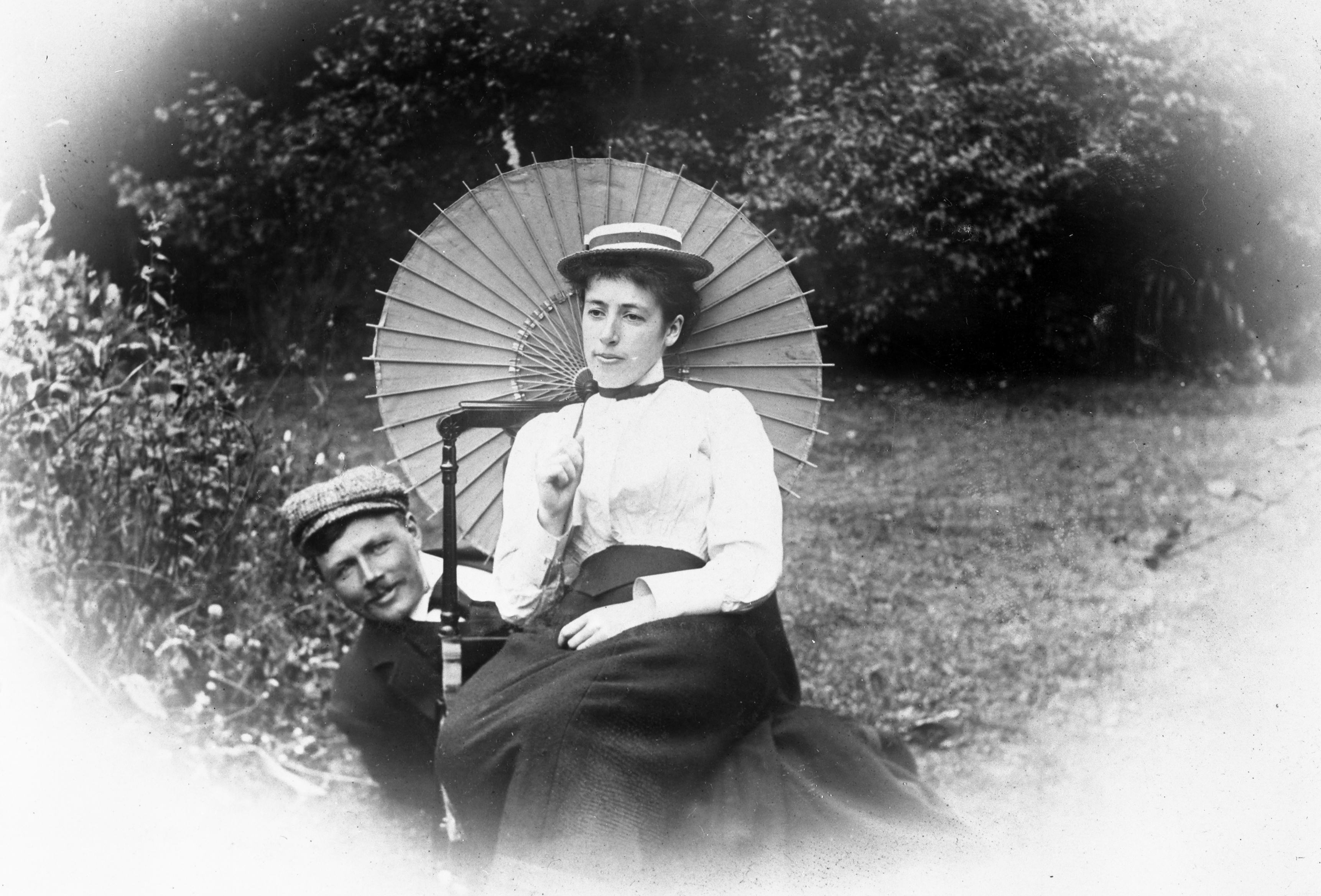 A portrait of Frances Hodgkins, who sits outside on a chair, wearing a straw boater, and holding a parasol. Her brother-in-law, William Hughes Field, lies on the ground behind her.